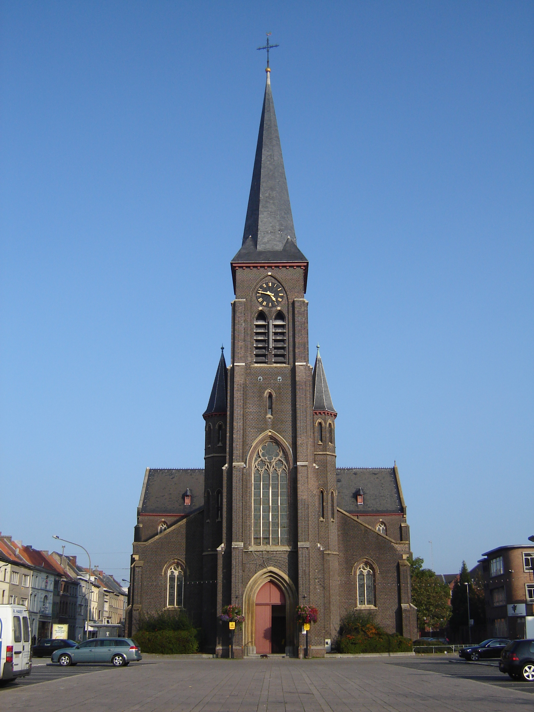 Church of Saint Livinus in Ledeberg, Gent. Gent, East Flanders, Belgium.